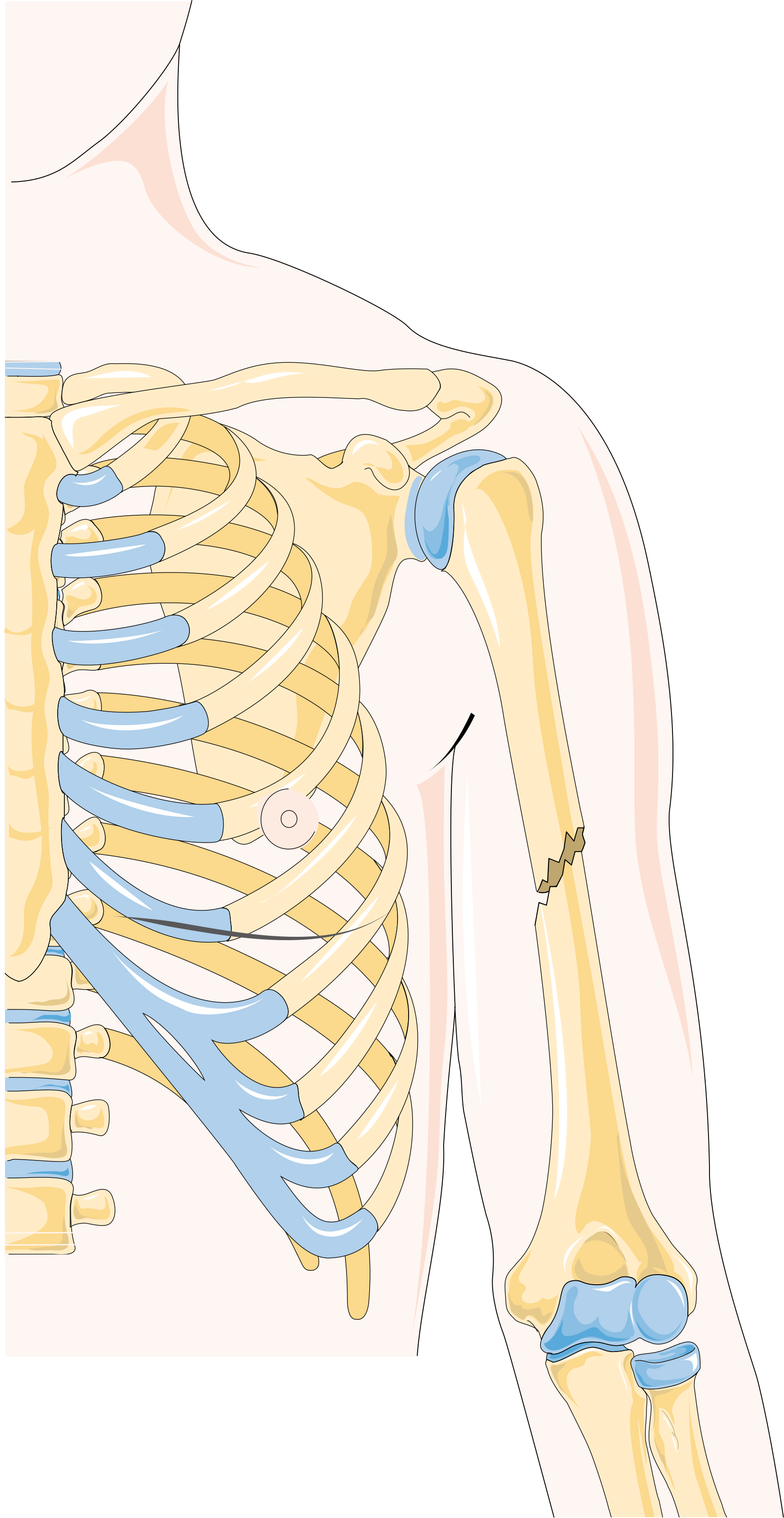 Bone fractures - Upper arm bone fracture - Humerus fracture